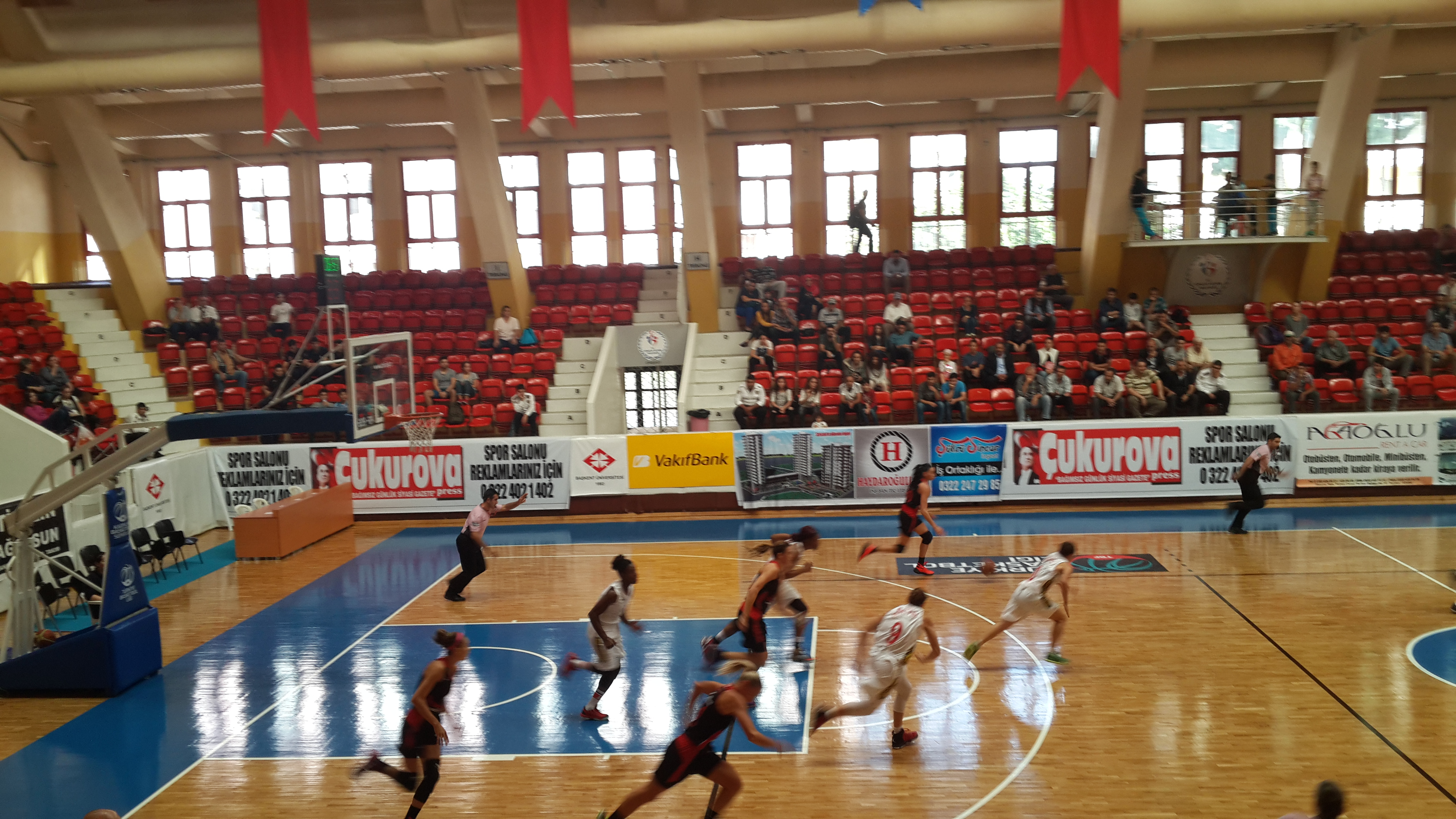 Botaş in attack